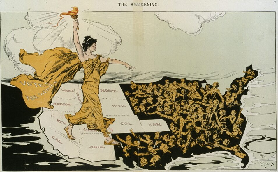 pro-suffrage cartoon by Hy Mayer, American, in Puck magazine 20 Feb 1915. Suffragist holds torch over Western states where women can vote beckoning the struggling women in East and South where they can not vote